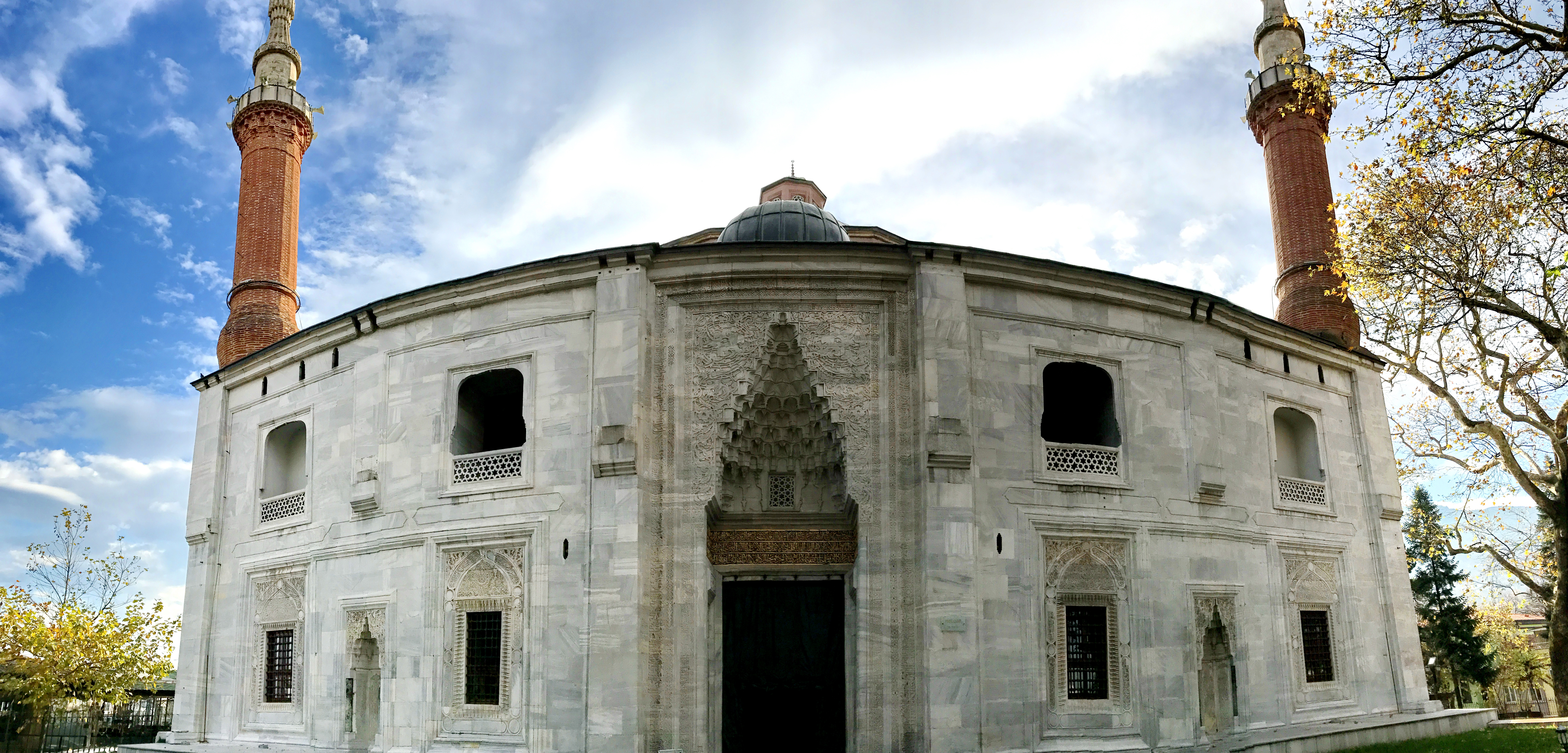 Green Mosque of Bursa, Turkey, 2017. Green Mosque (Turkish: Yeşil Camii, "Yeşil Mosque"), also known as Mosque of Sultan Mehmed I, is a part of the larger complex (a külliye) located on the east side of Bursa, Turkey, the former capital of the Ottoman Turks before they captured Constantinople in 1453. The complex consists of a mosque, türbe, madrasah, kitchen and bath.